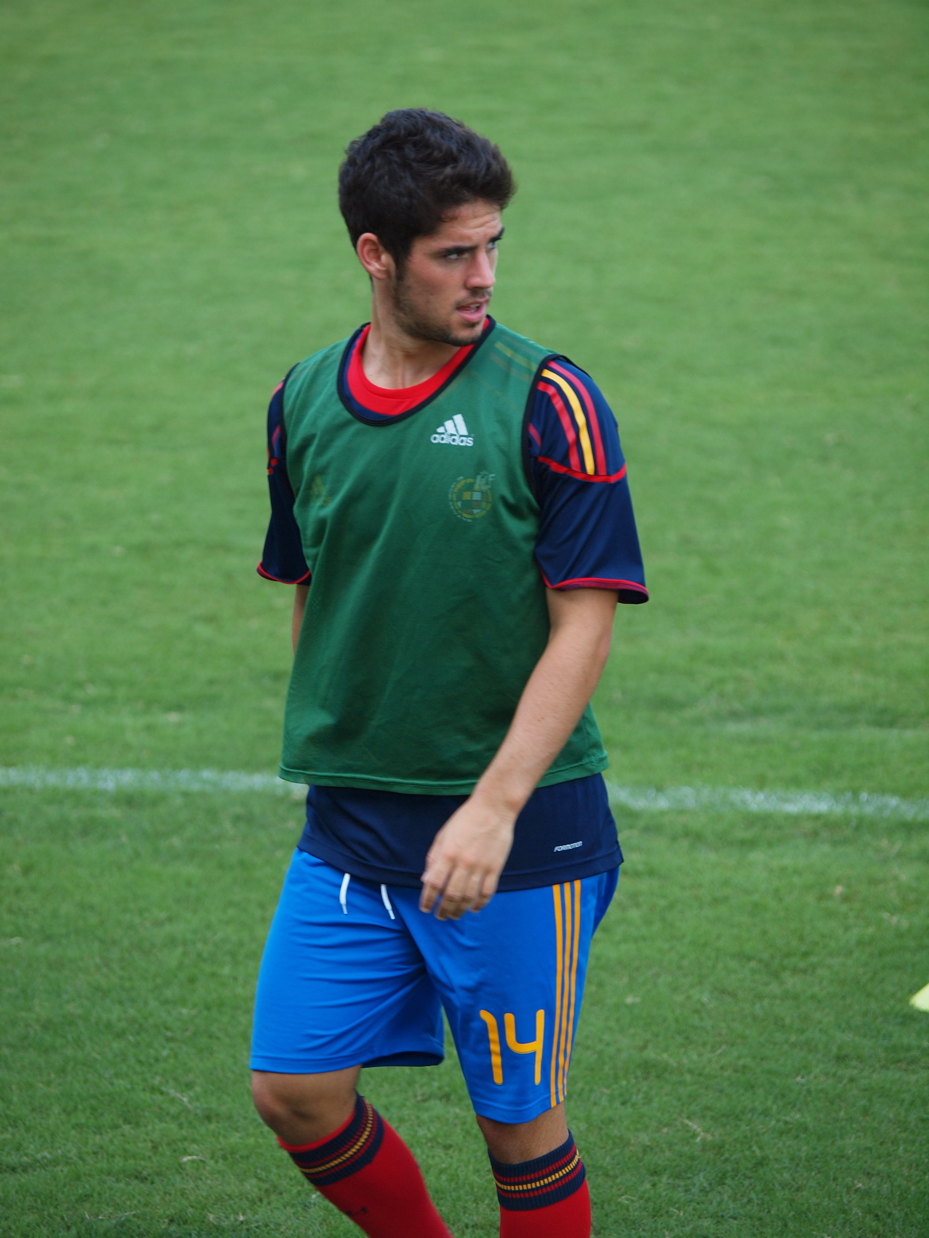 Francisco Alarcón, Isco.